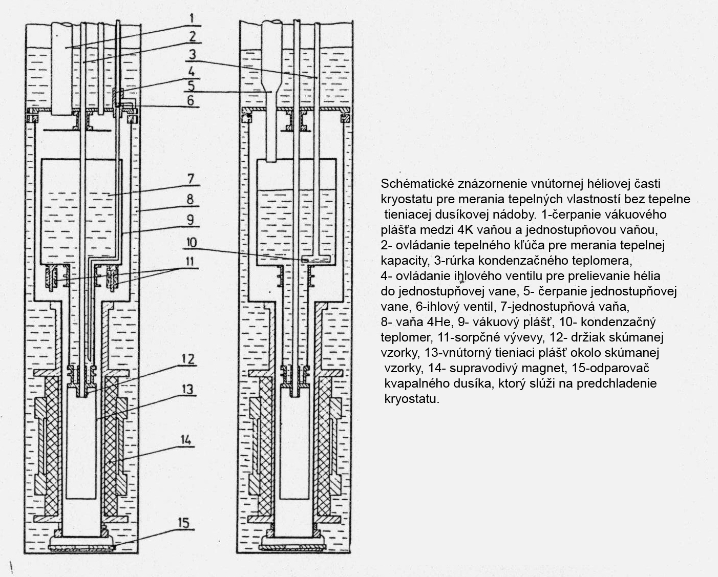 Cryostat